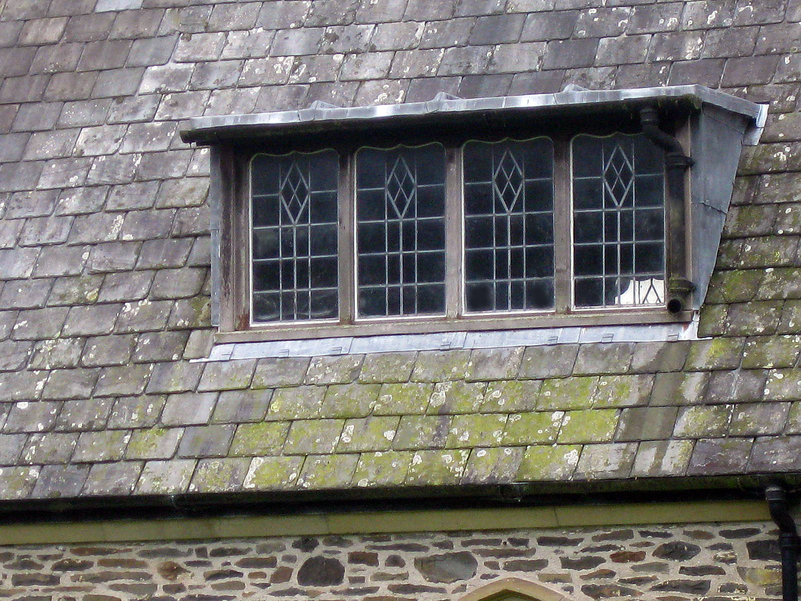 Church of St Cedwyn Grade (also known as: „The Church in Wales”), Llangedwyn: II Date Listed: 19 June 2001 - Cadw Building - ID: 25493 Llangedwyn. Dormer window added by H L North.